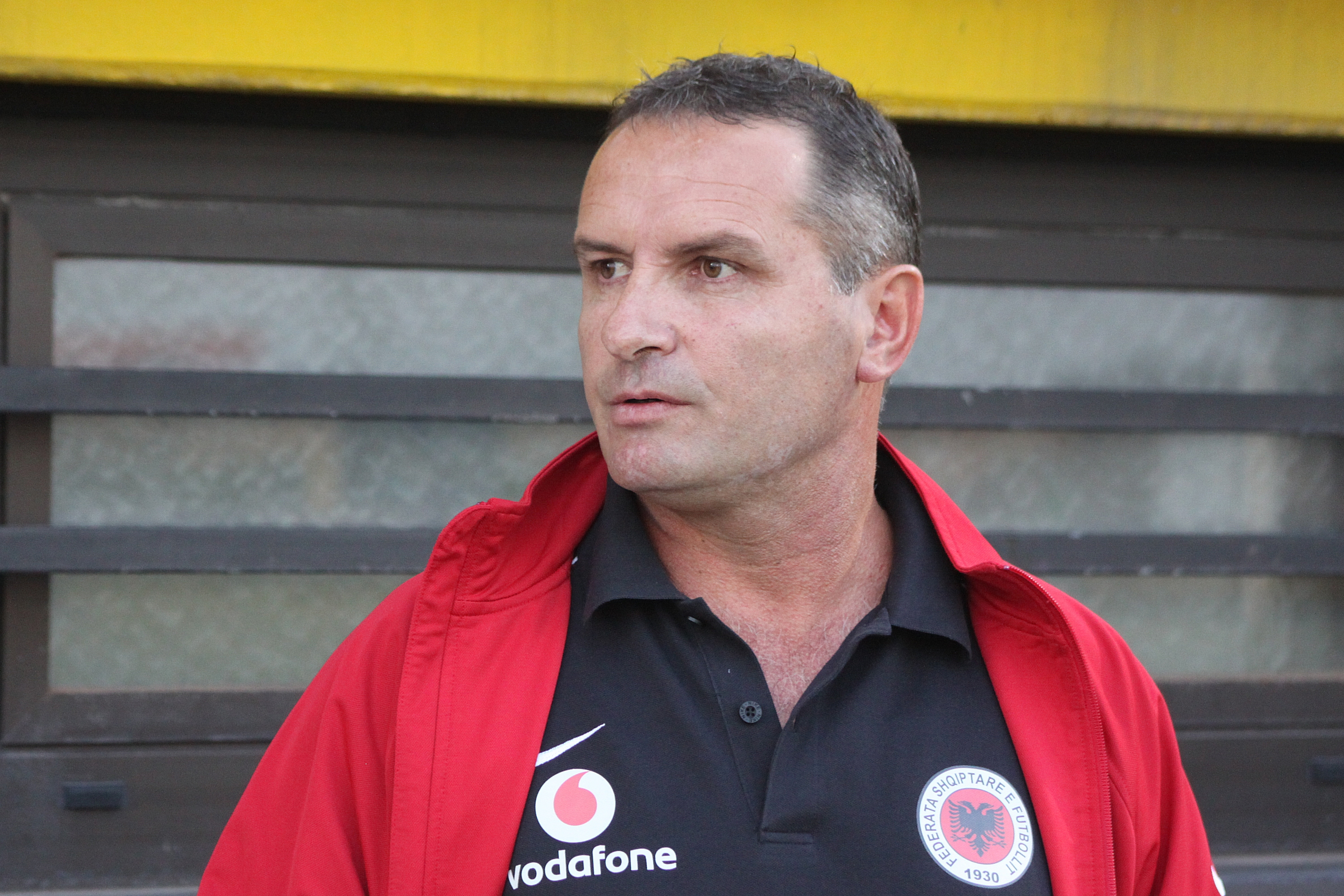 Artan Bushati (Teamchef) - Albania national under-21 football team (2)